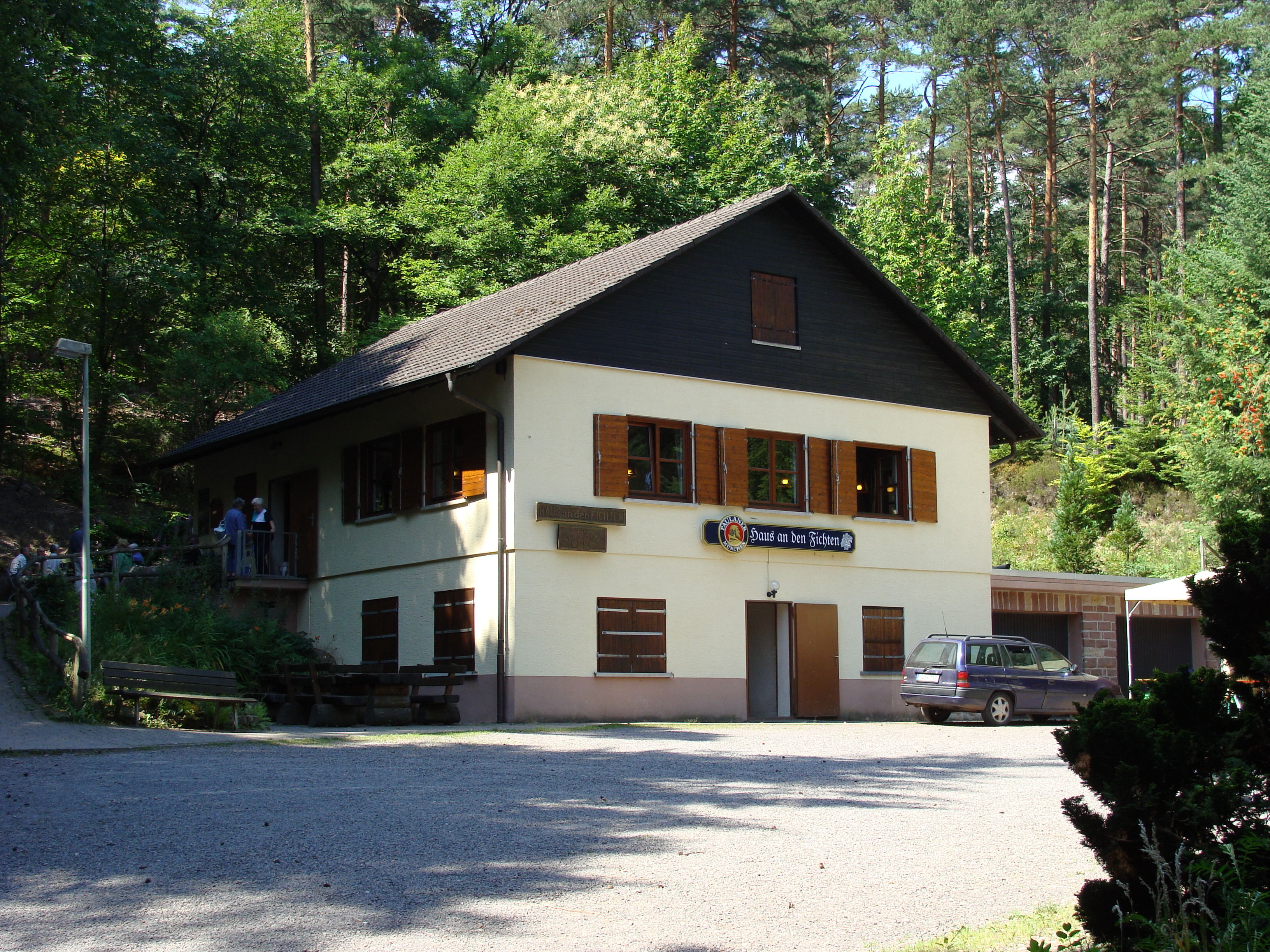 Hut "Haus an den Fichten" (palatinate forest)